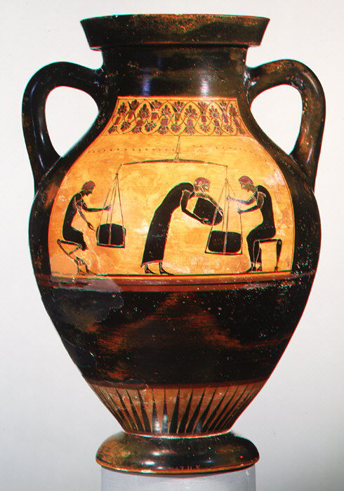 Greek, Attic; Amphora, Type B; Vases; Obverse, Theseus slaying the Minotaur; Reverse, men weighing merchandise